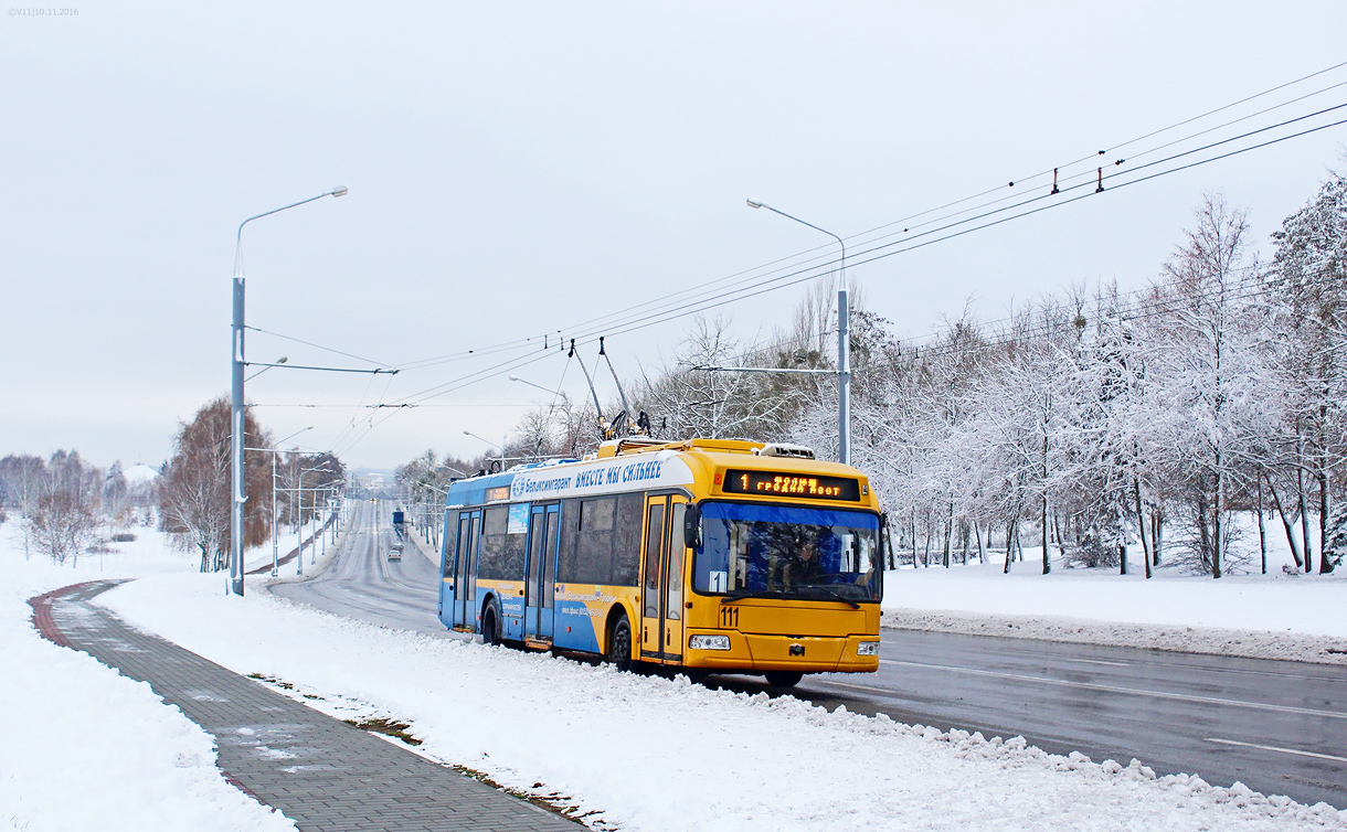 BKM 321 trolleybus in Hrodna